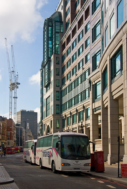 Outside 155 Bishopsgate Coaches for Stansted Airport wait beside Liverpool Street station. They are operating in direct competition with the Stansted Express inside the station.